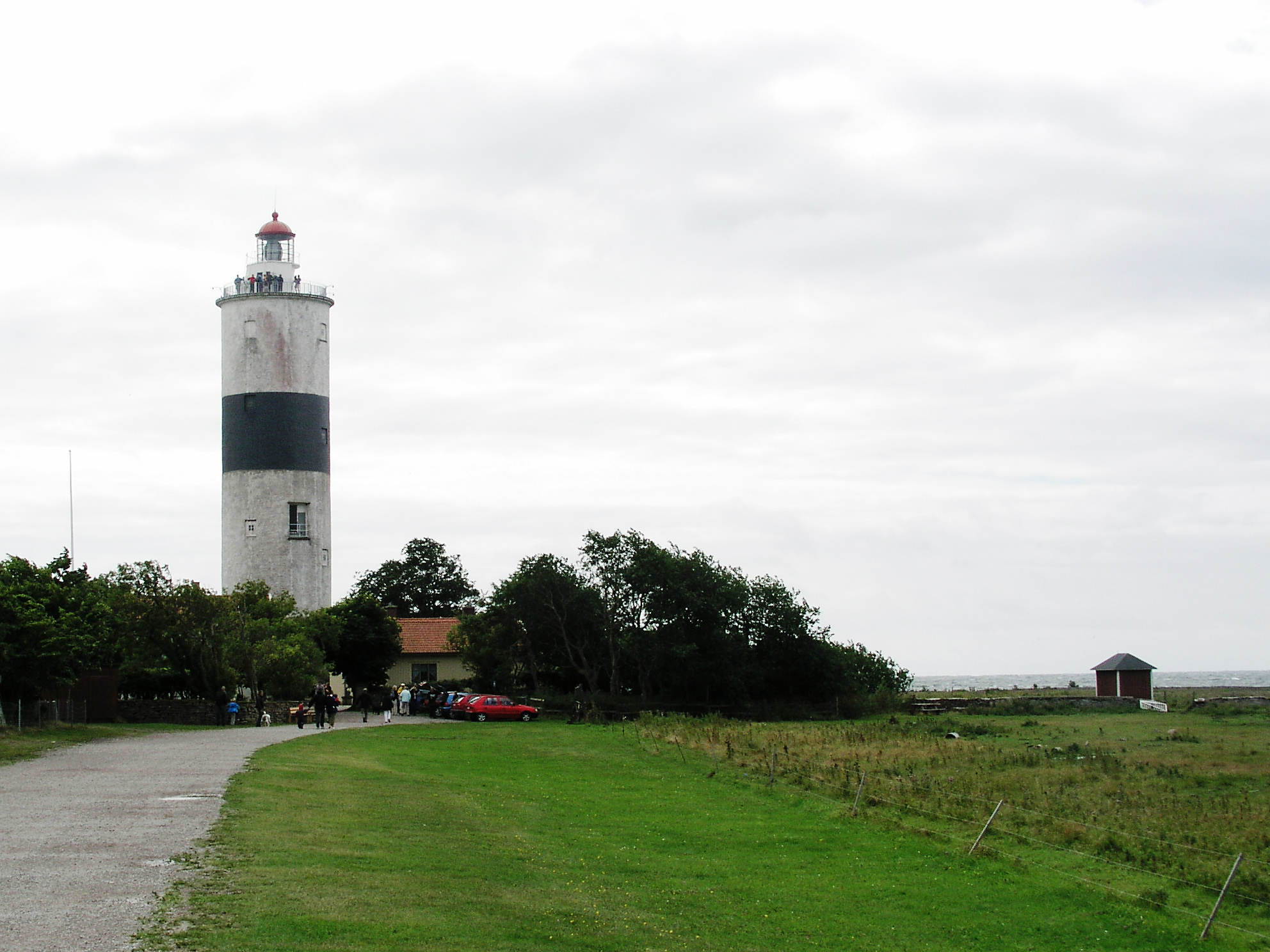 Långe Jan on Öland. The photo was taken the 1st of August 2005 by Håkan Svensson (Xauxa).